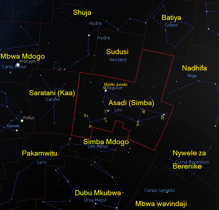 Constellation Leo as seen from Tanzania, Swahili labelled Kiswahili: Kundinyota Asadi - Simba (Leo) jinsi inavyoonekana kutoka Tanzania, majina kwa Kiswahili